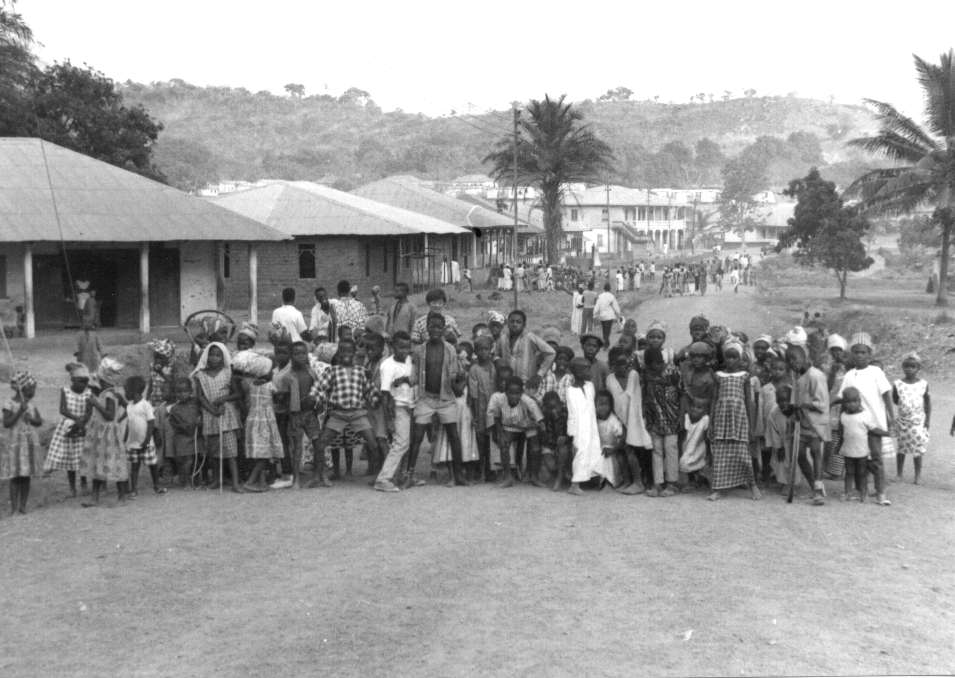 Photo taken in 1967 or 1968